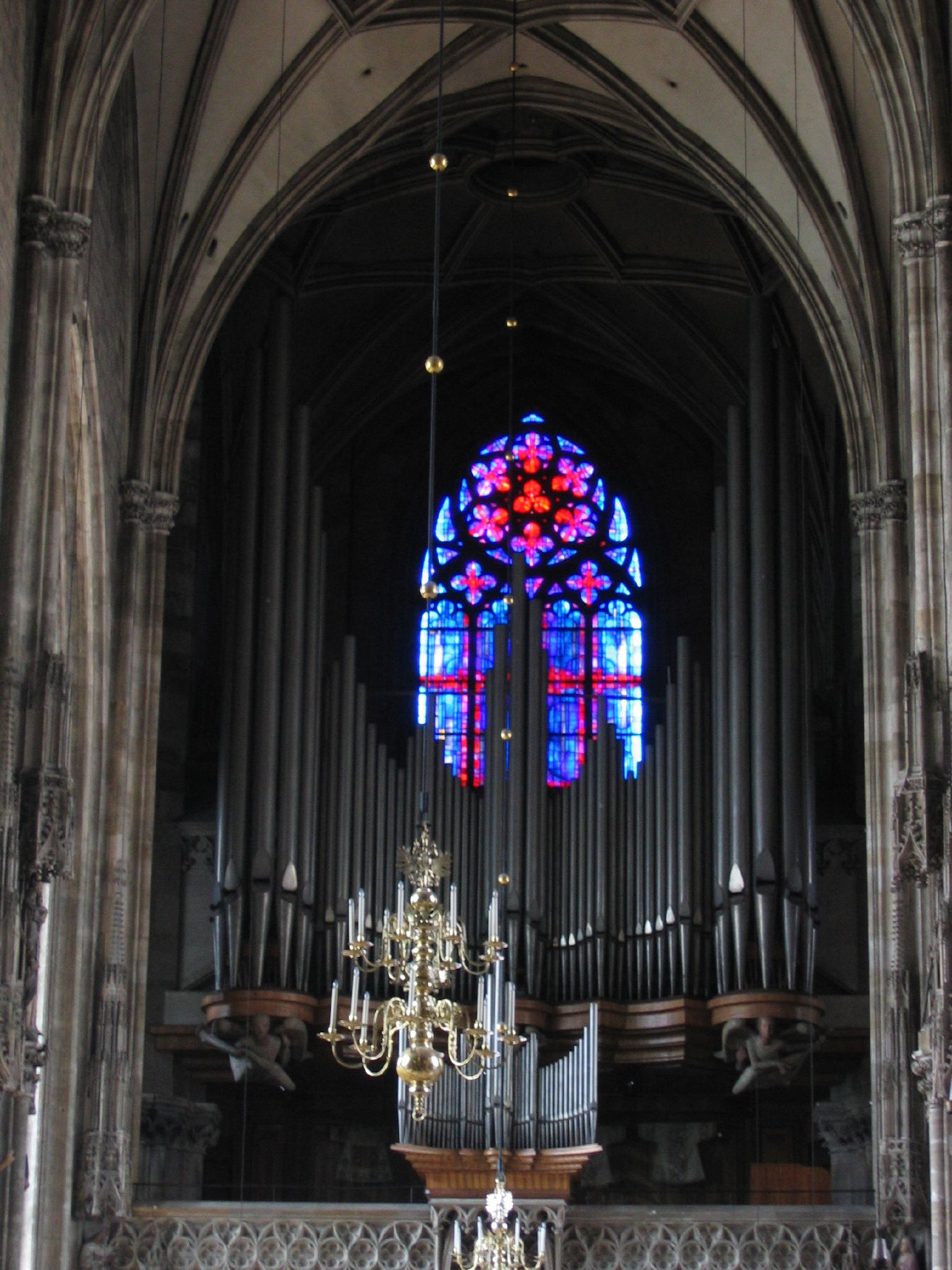 Organ of Stephansdom cathedral.